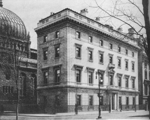 Harkness House, on 1 East 75th Street, serves as The Commonwealth Fund's New York City headquarters. It was the Harkness family home and received landmark status in 1967.